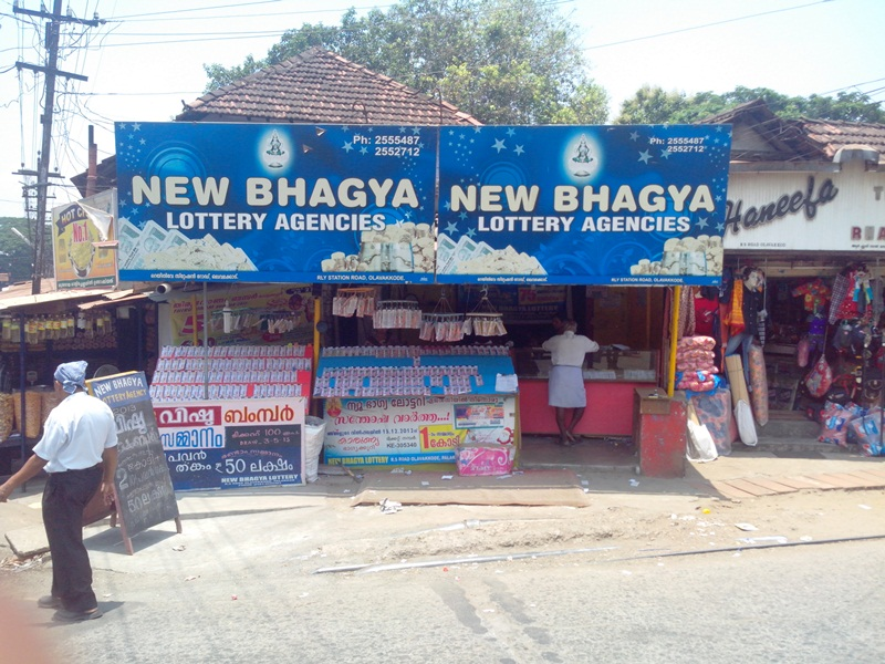 A Kerala Lottery agency at Palakkad